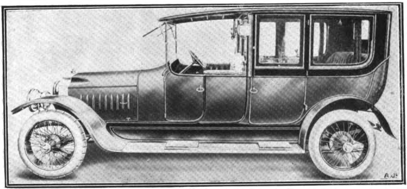 1913 Vauxhall Brendon limousine on a 25 hp 4-cylinder chassis published November 30 1912